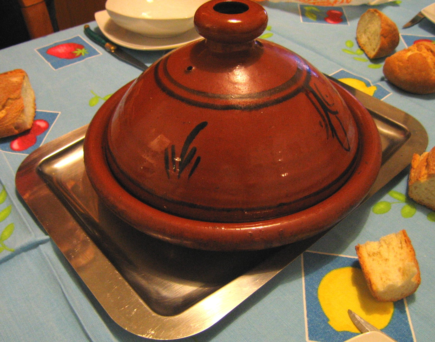 Tajine pot.